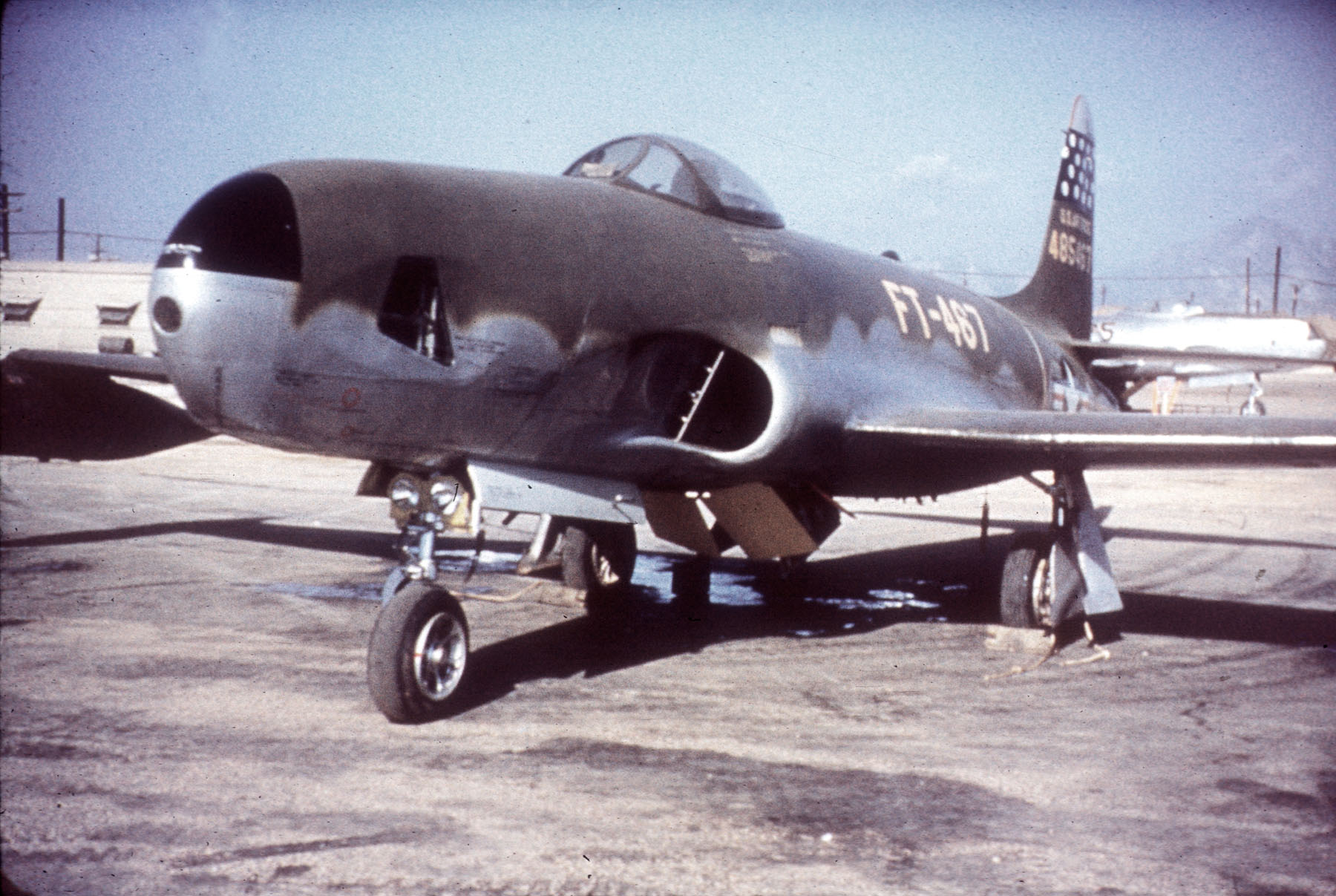 A U.S. Air Force Lockheed RF-80A-5-LO Shooting Star (s/n 44-85467) from the 45th Tactical Reconnaissance Squadron, 67th Tactical Reconnaissance Wing in Korea. The squadron was based at Taegu in 1950-51 and at Kimpo for the remainder of the war. A few RF-80s received an experimental olive drab paint job to be less visible to MiG fighters.